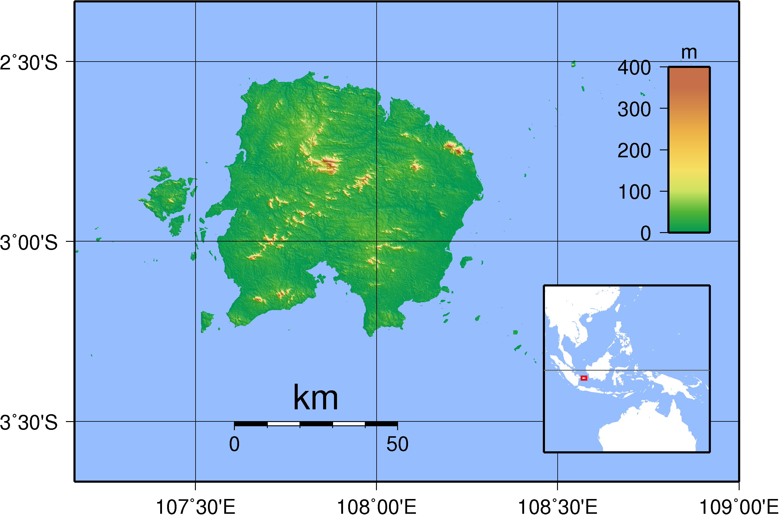 Topographic map of Belitung